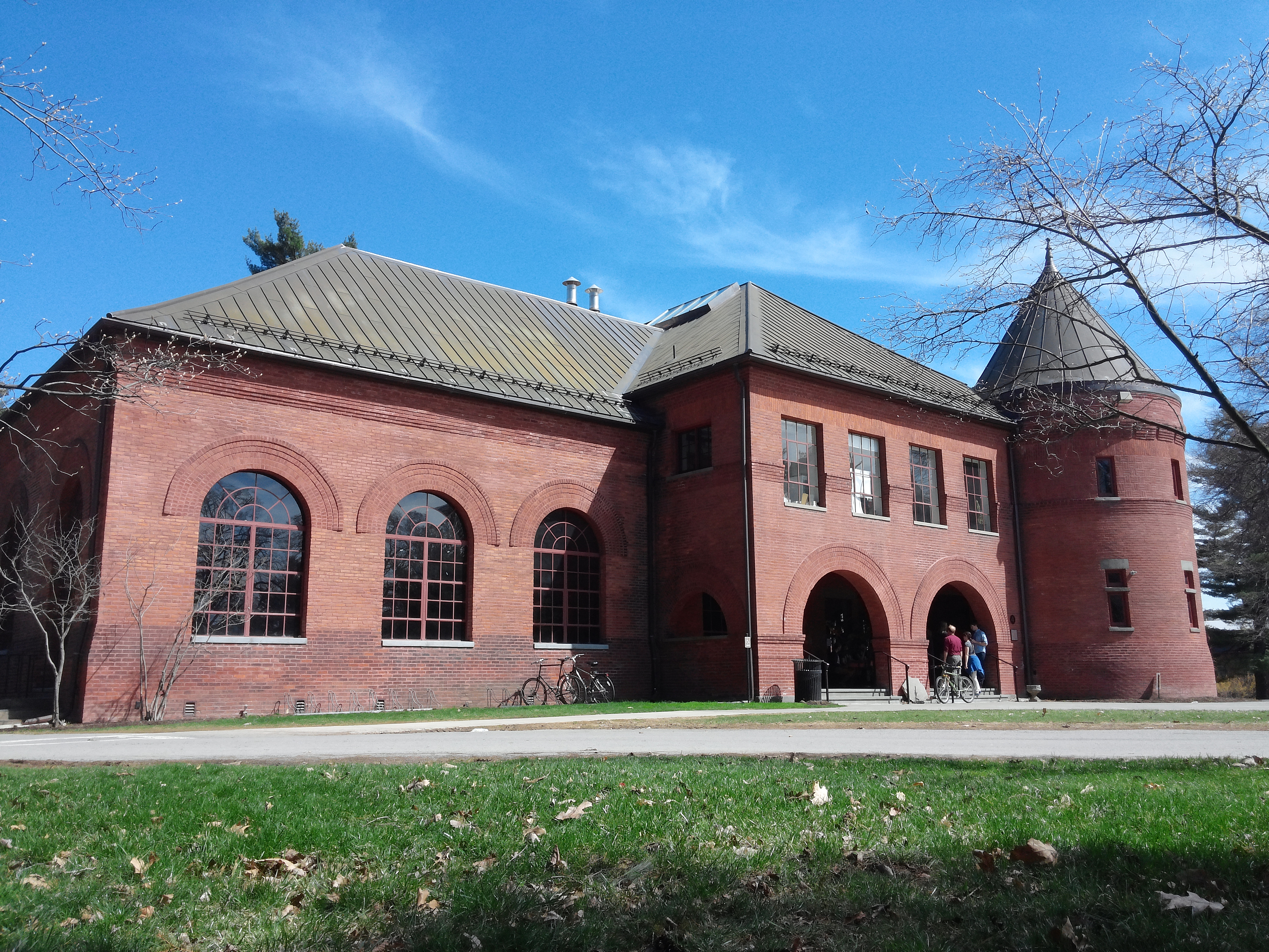 Ely Hall on the campus of Vassar College in the town of Poughkeepsie, New York, US.